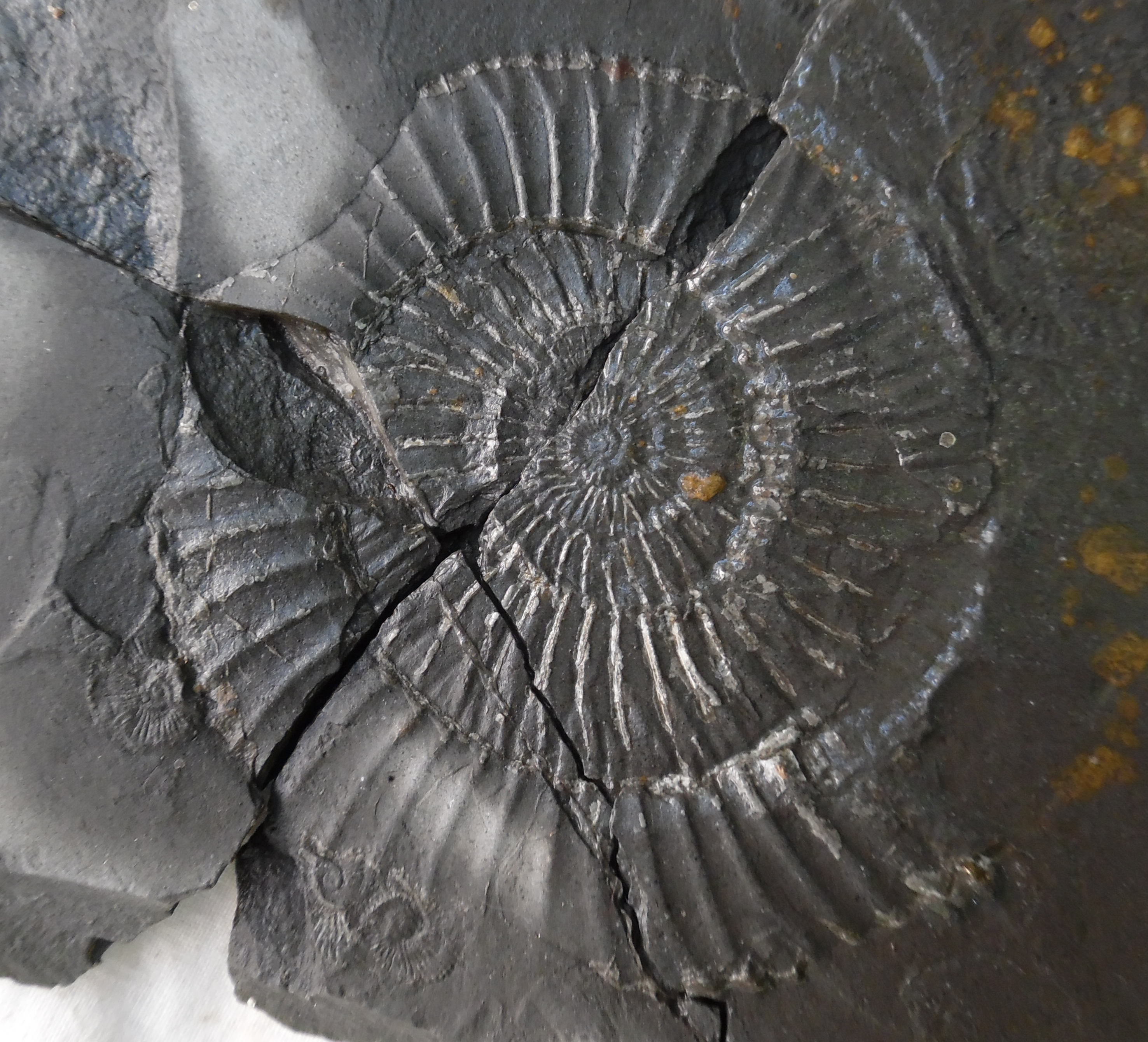 Dactylioceras commune from Holzmaden, Baden-Württemberg, Germany. Found by myself in Posidonienschiefer Formation, Lias epsilon. The phragmocone has got a diameter of 8 centimeters and is surrounded by small microconchs (lower left).